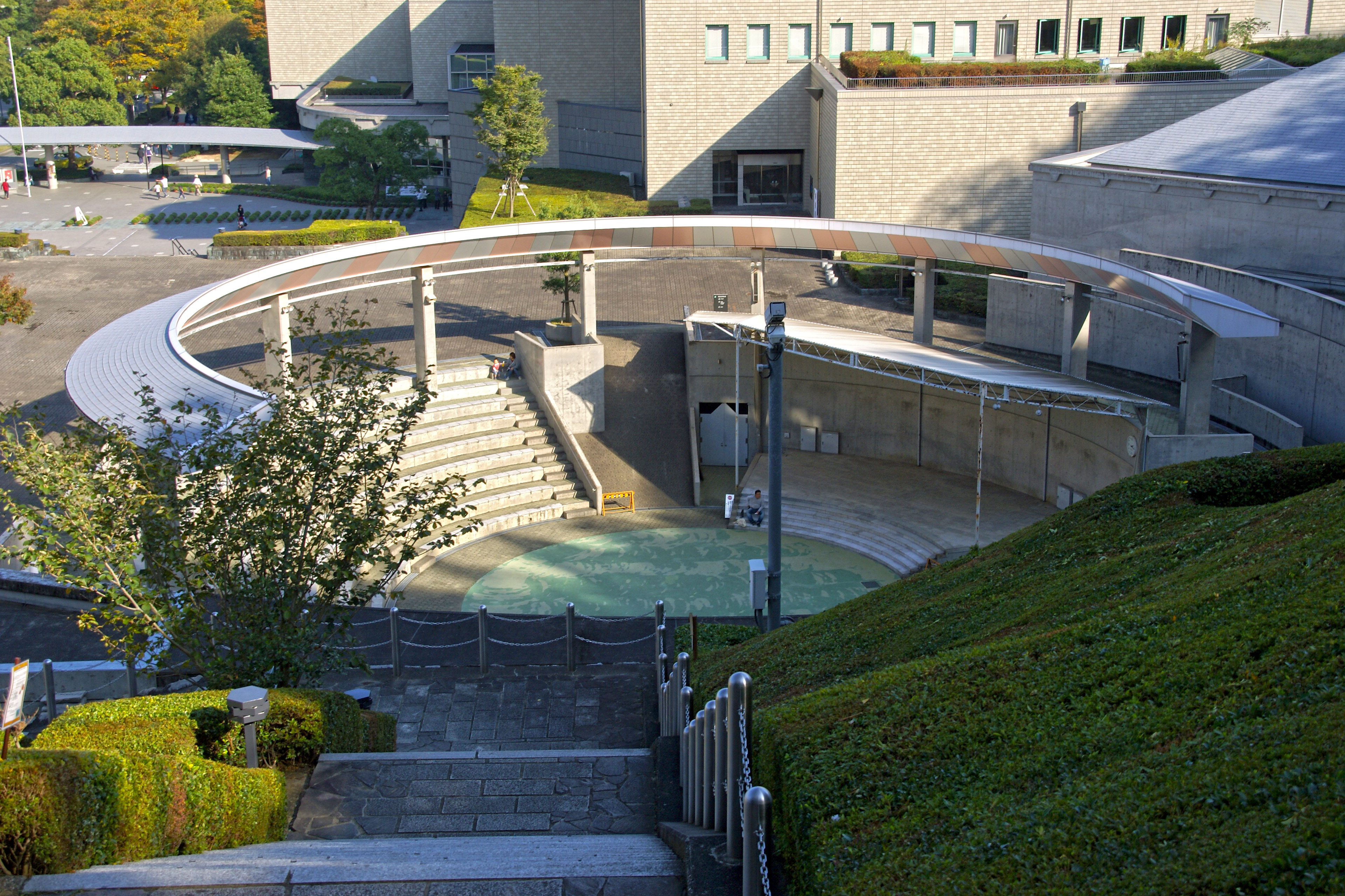 Tokushima Bunka-no-Mori Park in Tokushima, Tokushima prefecture, Japan